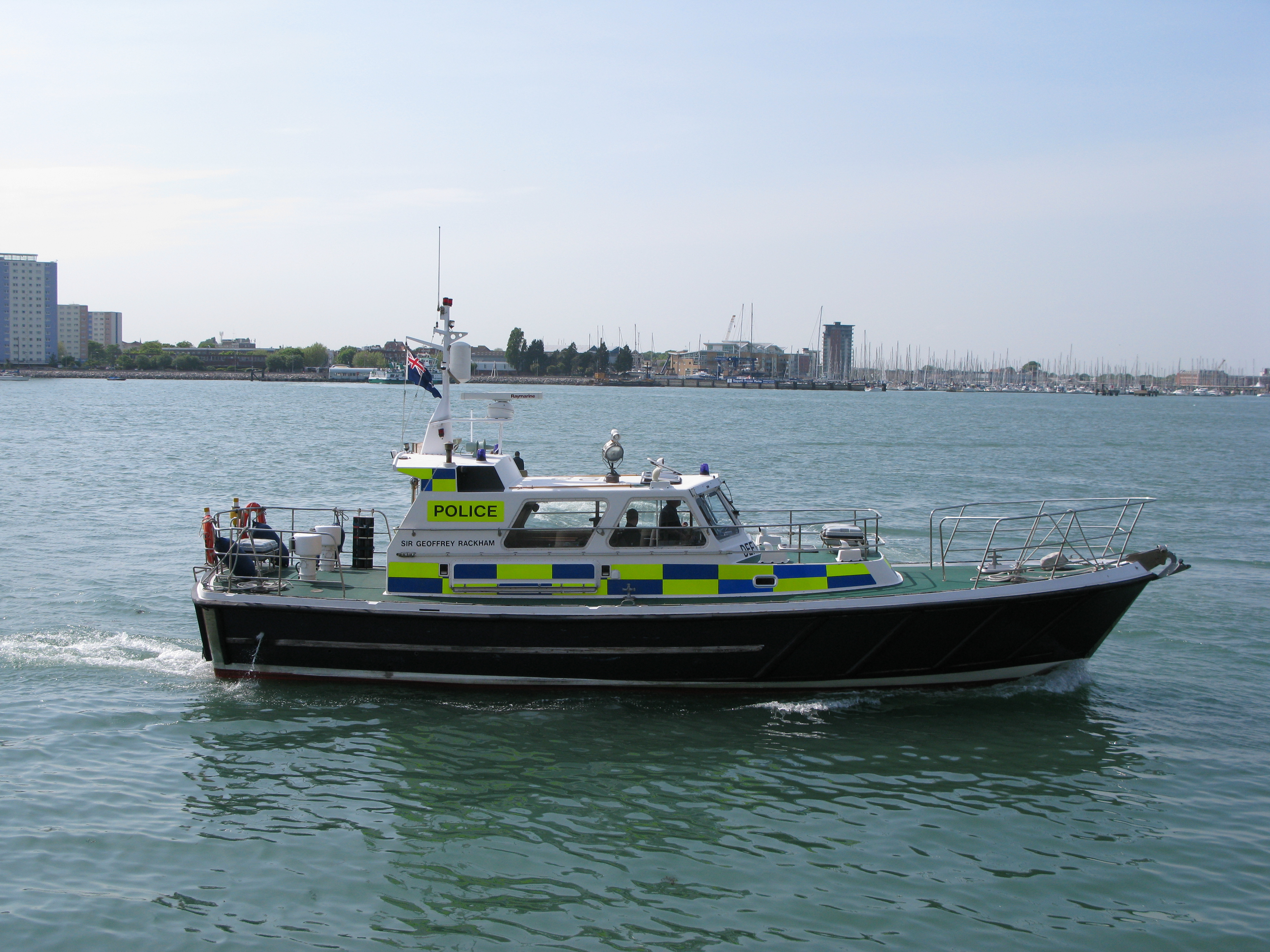 Photo of a Ministry of Defence Police Police launch the "Sir Geoffrey Rackham"